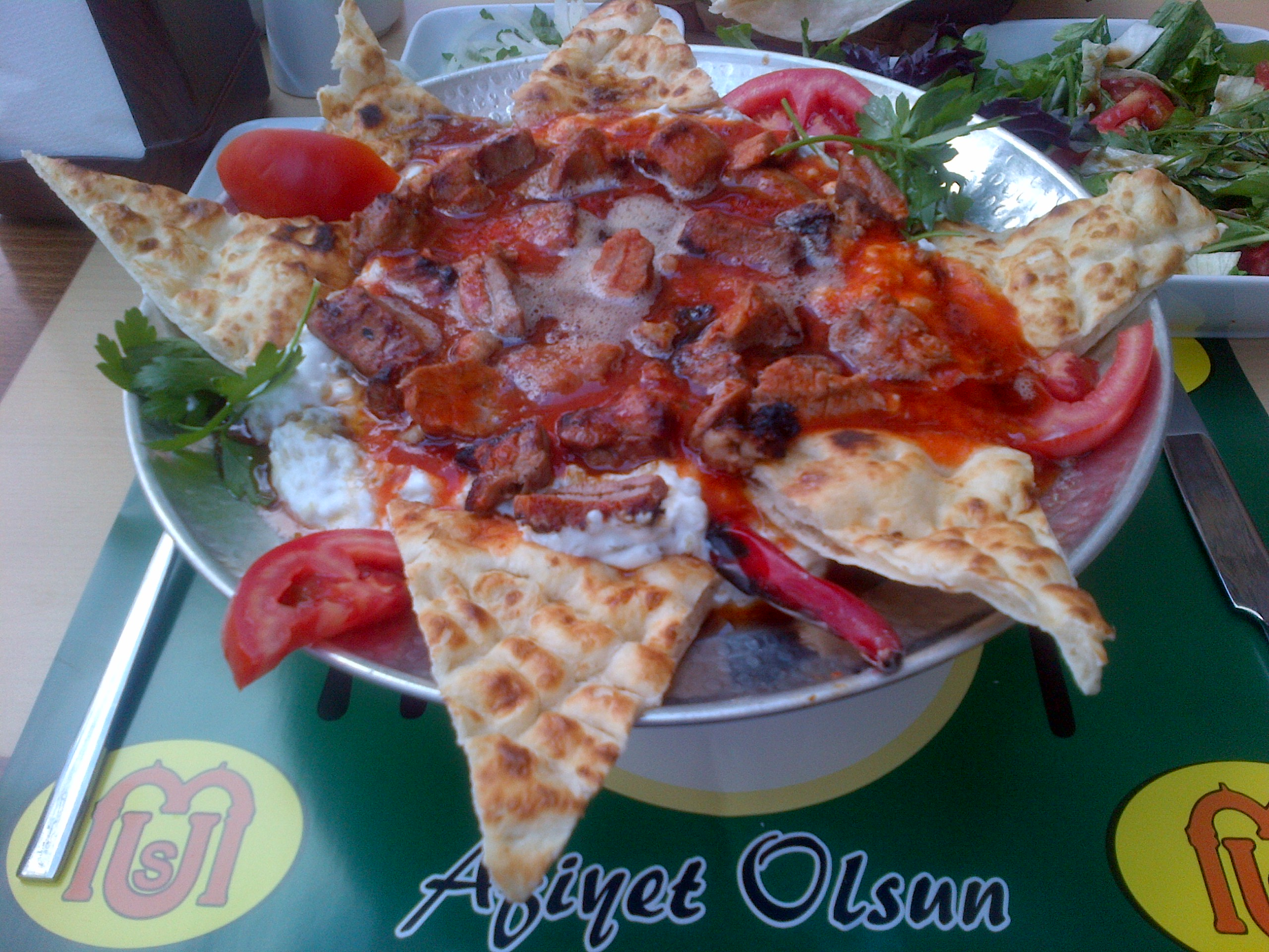 Alinazik or Ali Nazik, from the cuisine of southern Turkey, especially Gaziantep and Urfa, at a "kebapçı" in Ankara.